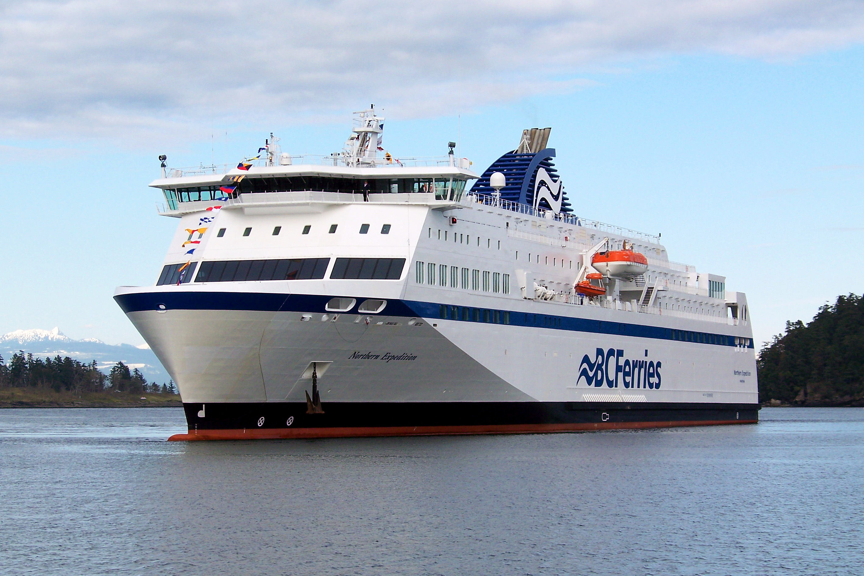 New BC Ferry Northern Expedition arrival in Nanaimo after delivery trip from Germany. March 6, 2009